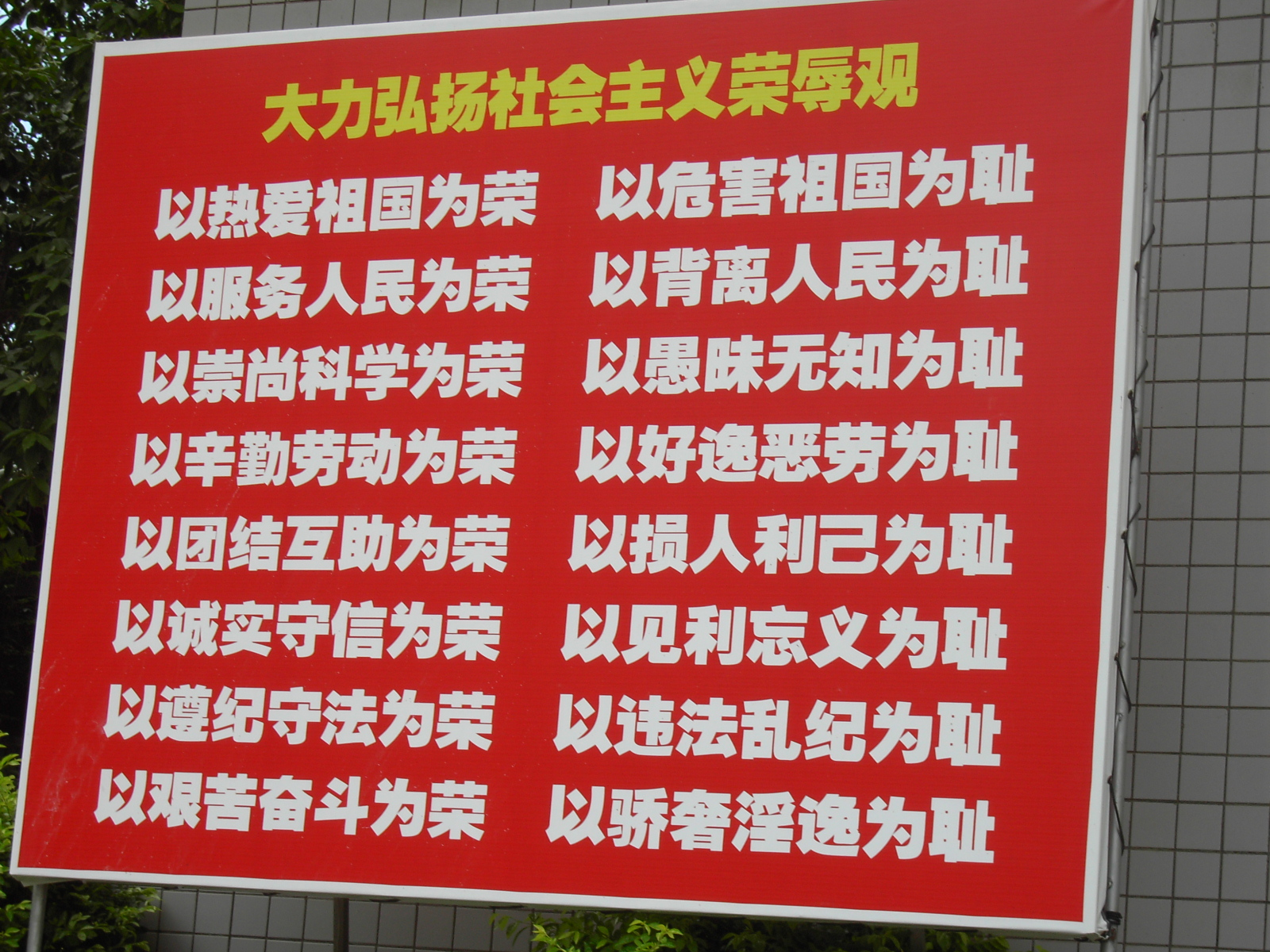 The Eight Honours and Eight Shames printed on a banner near a school in Haikou.